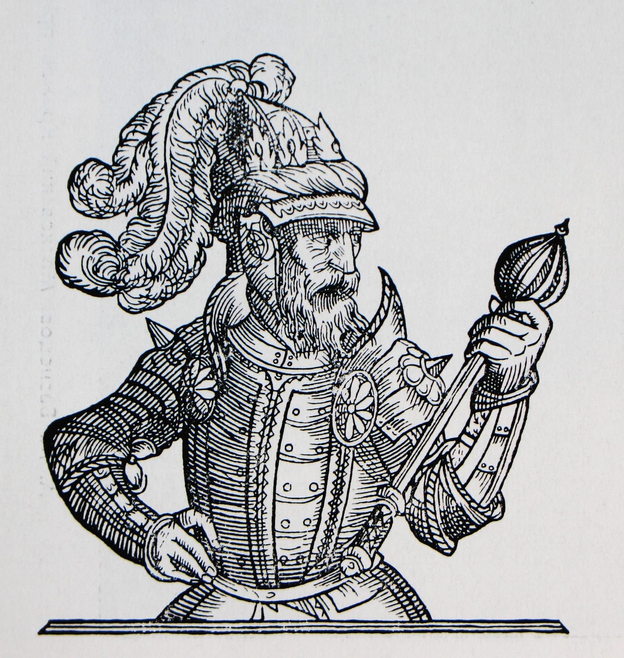 Algirdas, Grand Duke of Lithuania. 1578